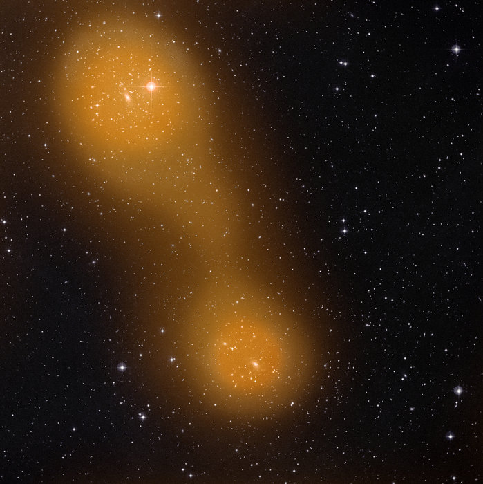 Planck has discovered a bridge of hot gas that connects galaxy clusters Abell 399 (lower centre) and Abell 401 (top left). The galaxy pair is located about a billion light-years from Earth, and the gas bridge extends approximately 10 million light-years between them. The image shows the two galaxy clusters as seen at optical wavelengths with ground-based telescopes and through the Sunyaev-Zel'dovich effect (in orange) with ESA's Planck satellite.